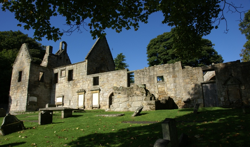 St Bridget's Kirk, Dalgety, Fife, Scotland. From the south east.